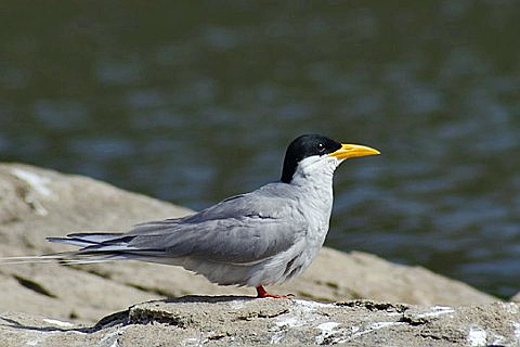 River Tern - Sterna aurantia